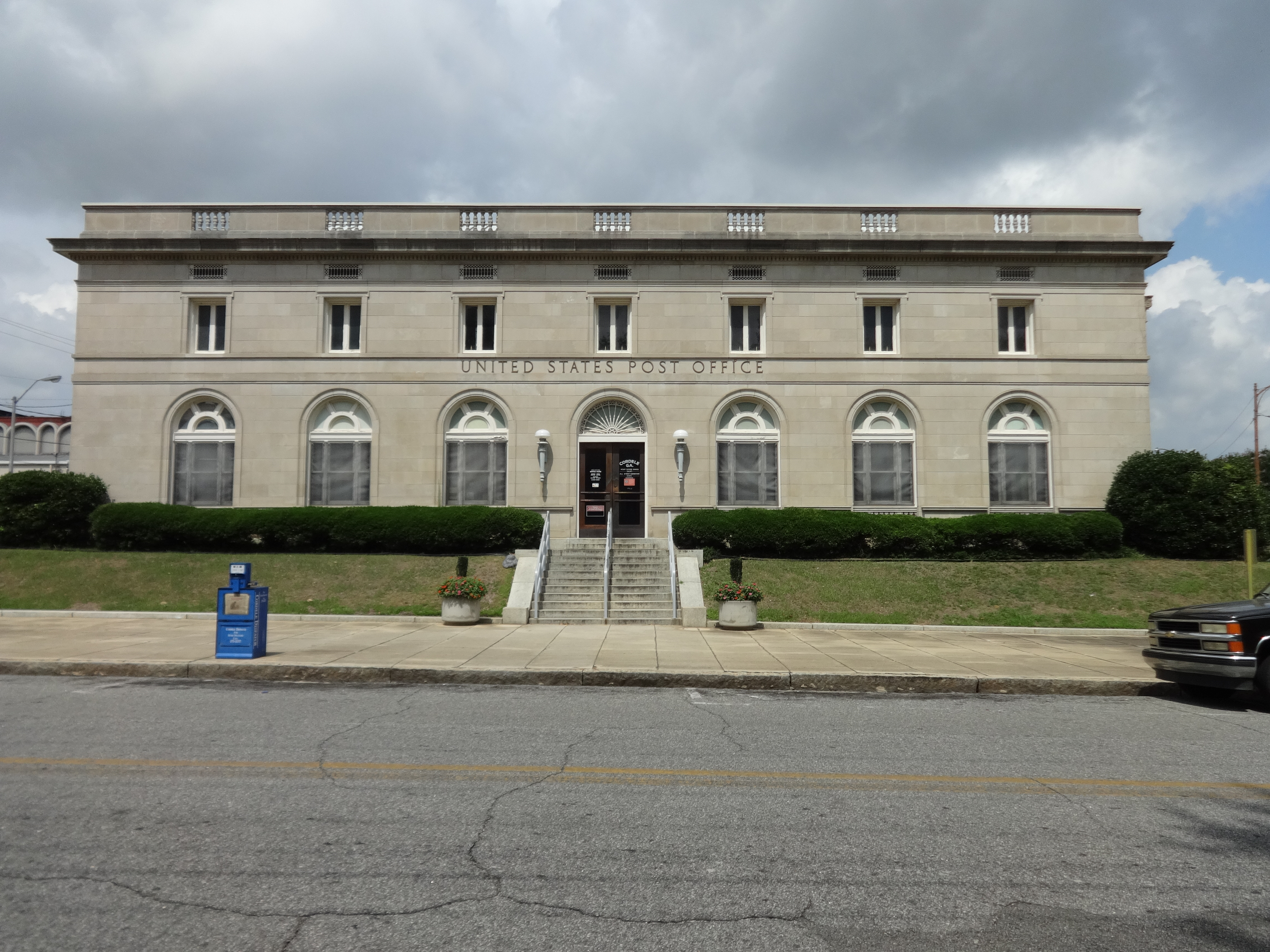 Cordele, Crisp County, Georgia